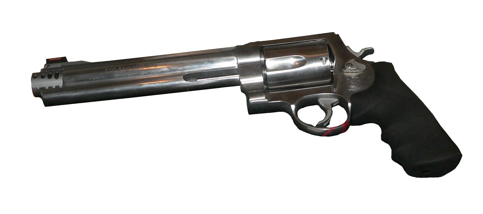 Smith & Wesson Model 500